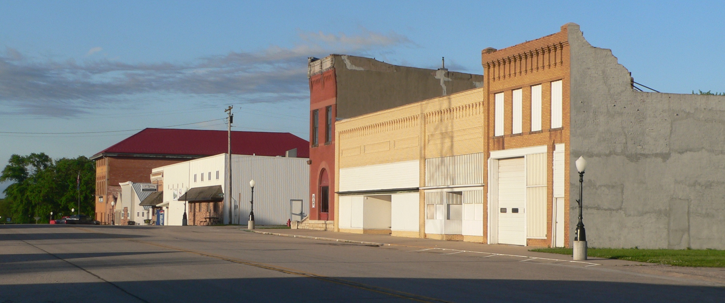 Downtown Diller, Nebraska: west side of Commercial Street, looking southwest from about Kelley Street.